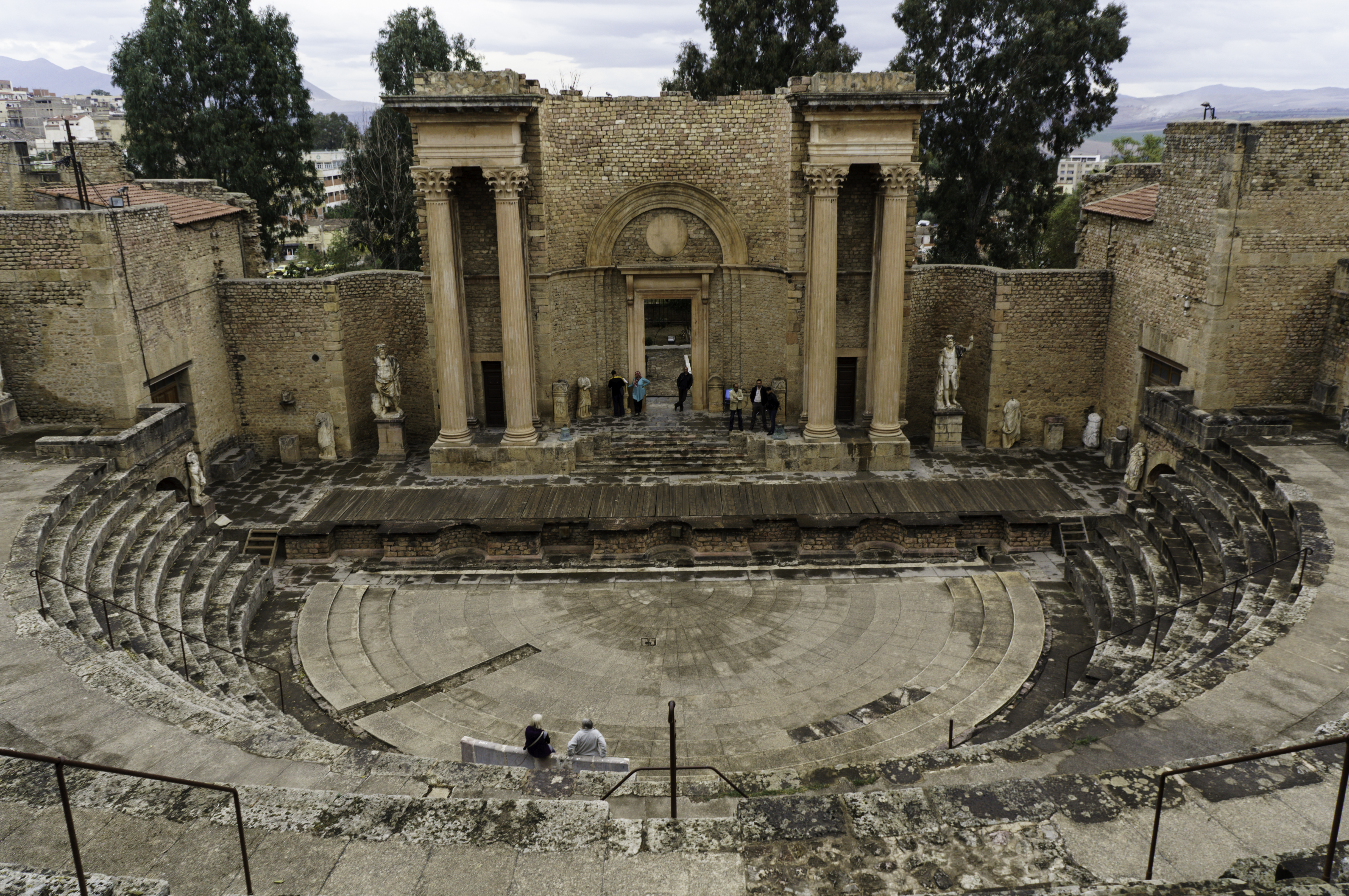 Roman theatre at Guelma